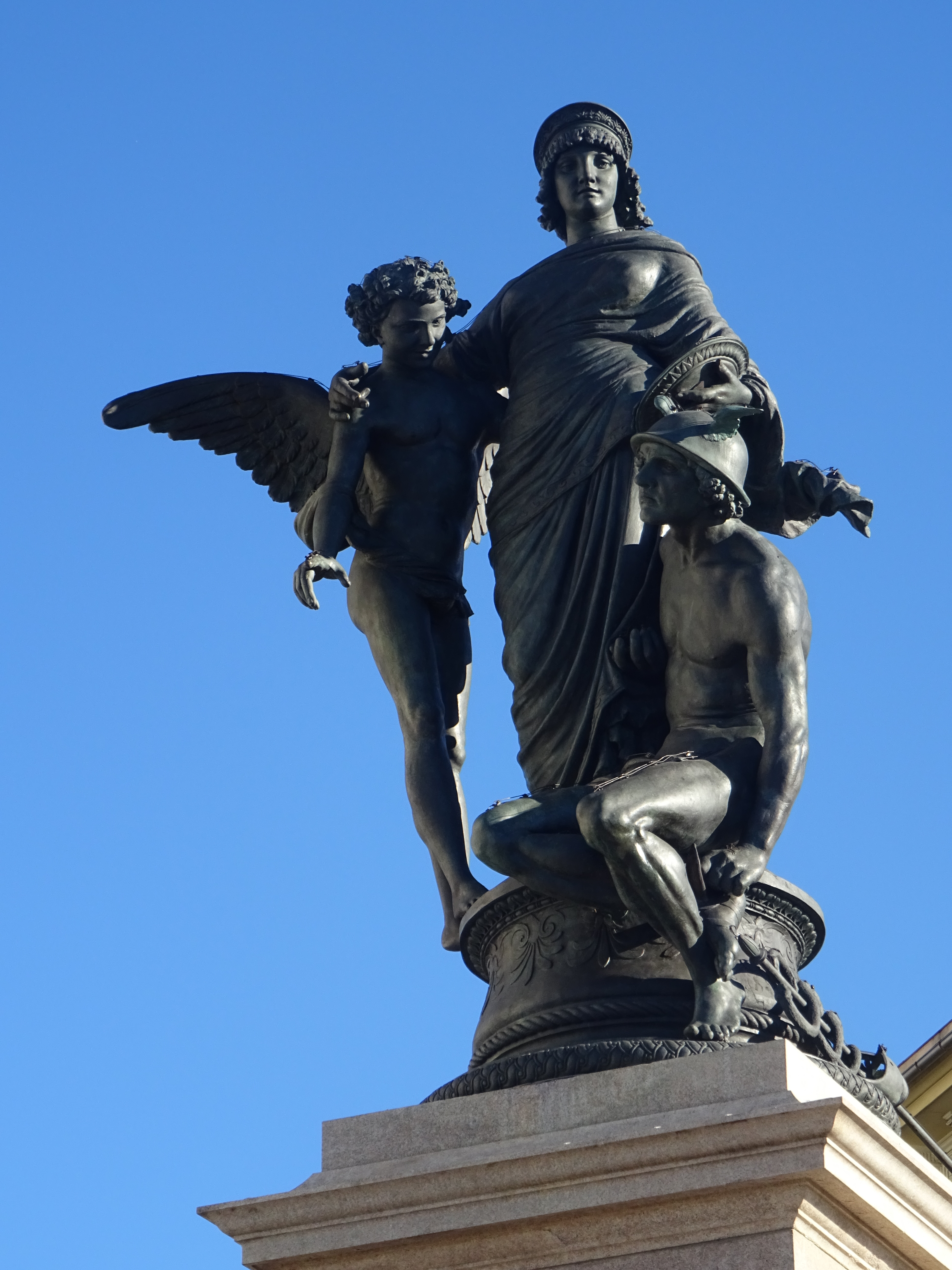 Monument to Raffaele De Ferrari in Genoa, work by Giulio Monteverde